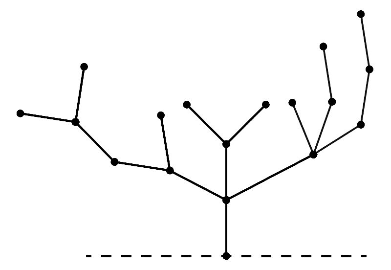 A starting setup for the game of Hackenbush